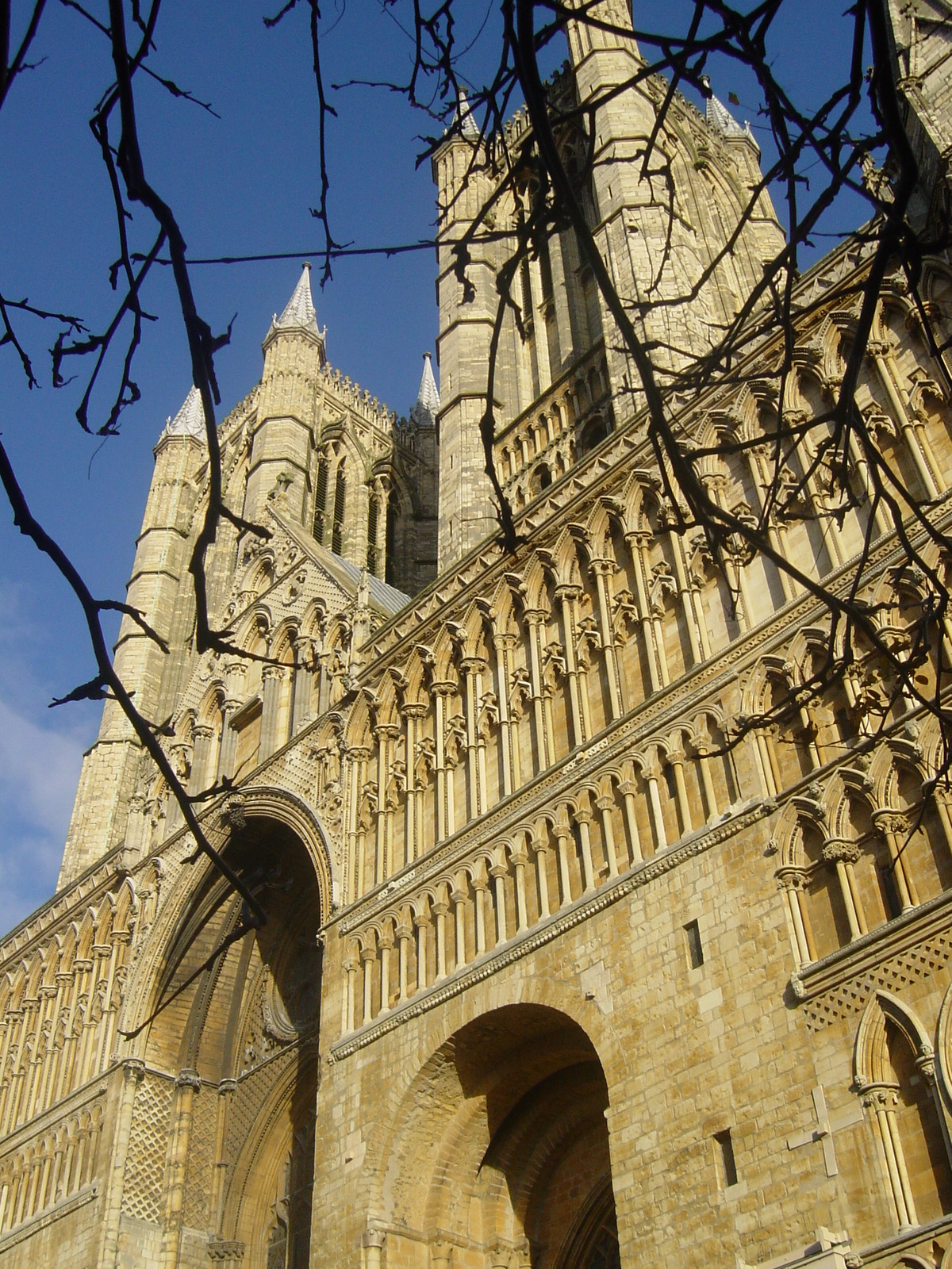 Lincoln Cathedral (Western entrance)